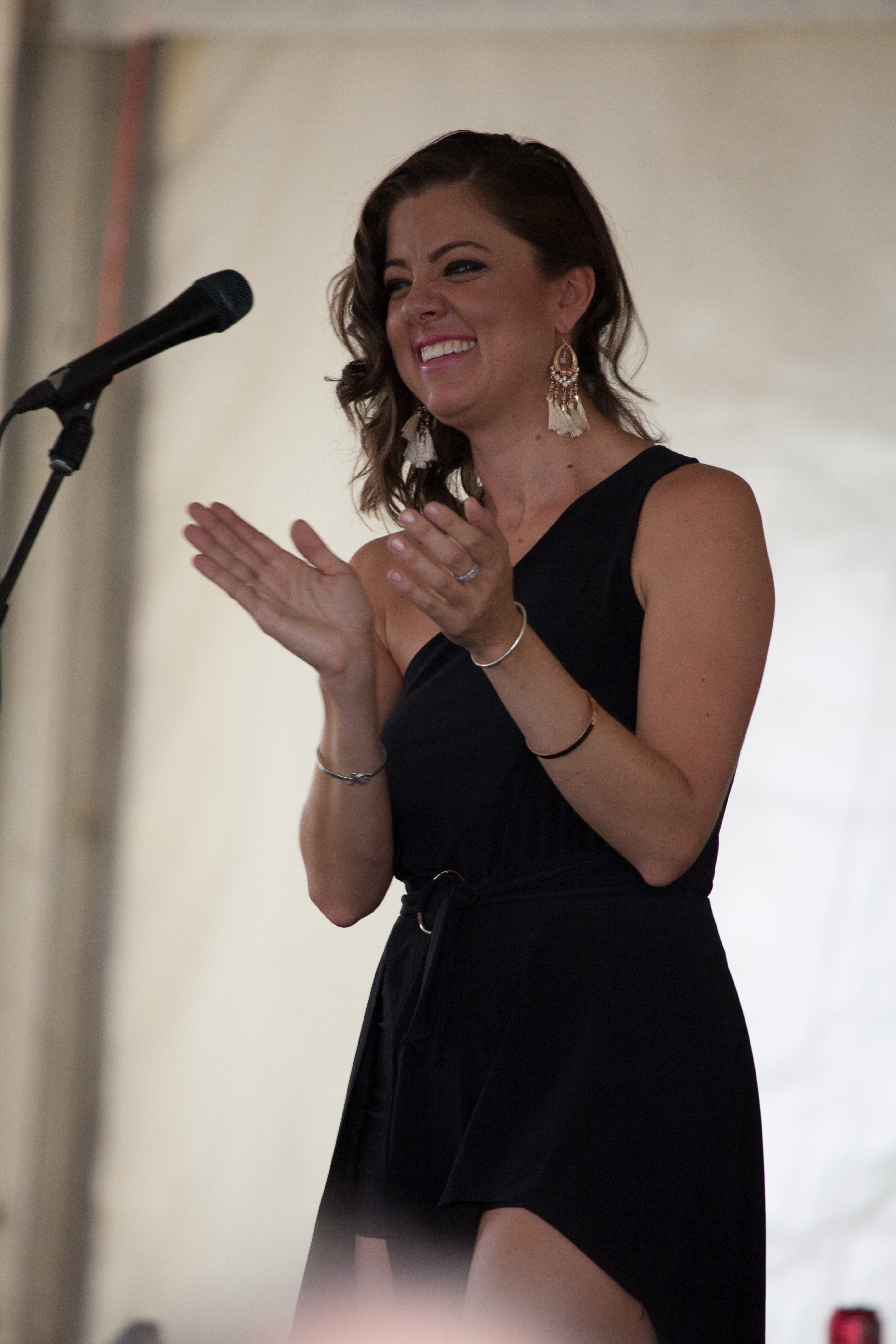 Amber Lawrence at the Penrith Working Truck Show 2016.